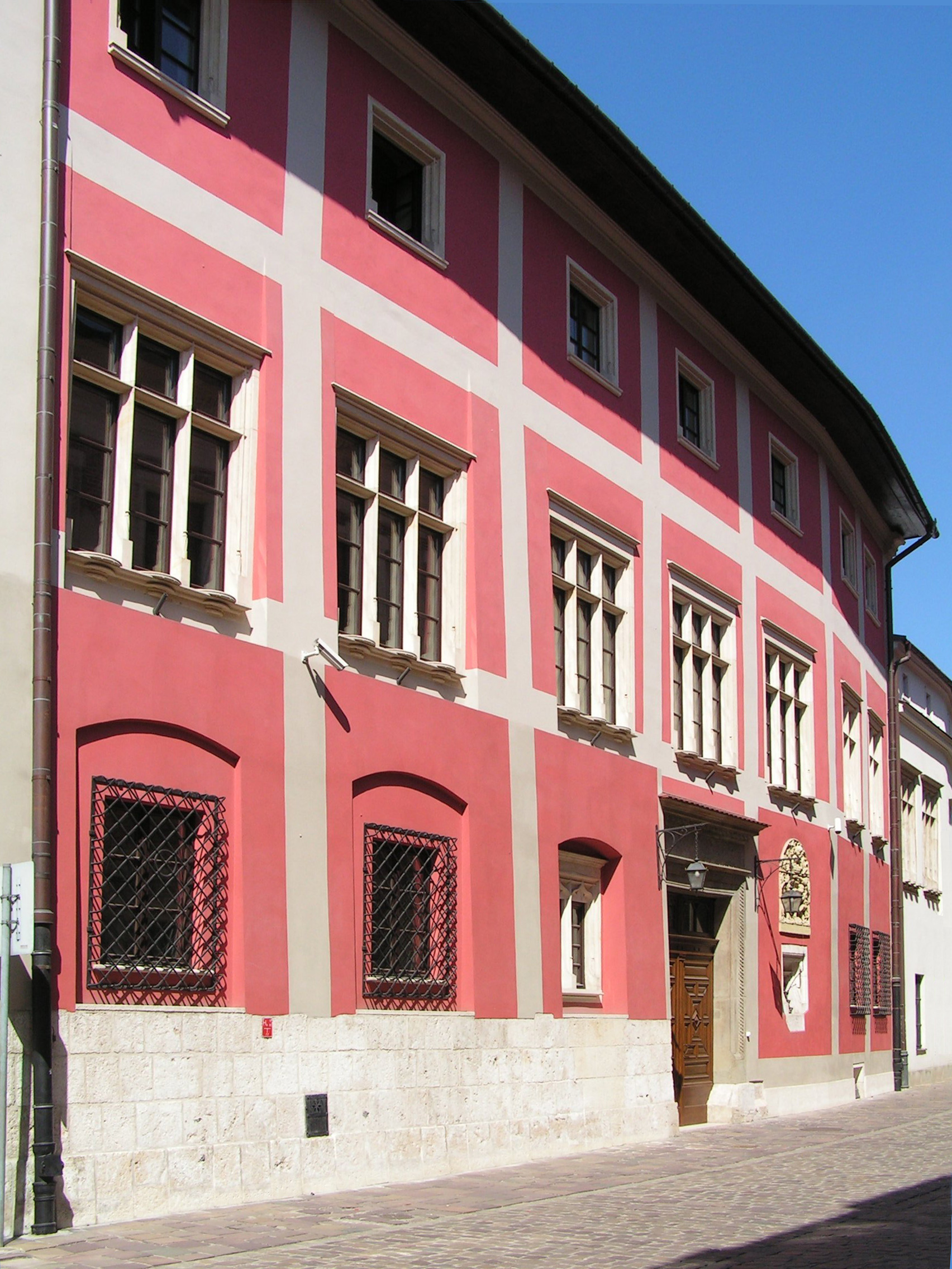 Bishop Ciolek Palace, Kraków